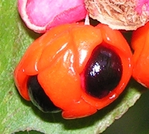 The fruit of Euonymus verrucosus (enlarged). Moscow region, Russia.